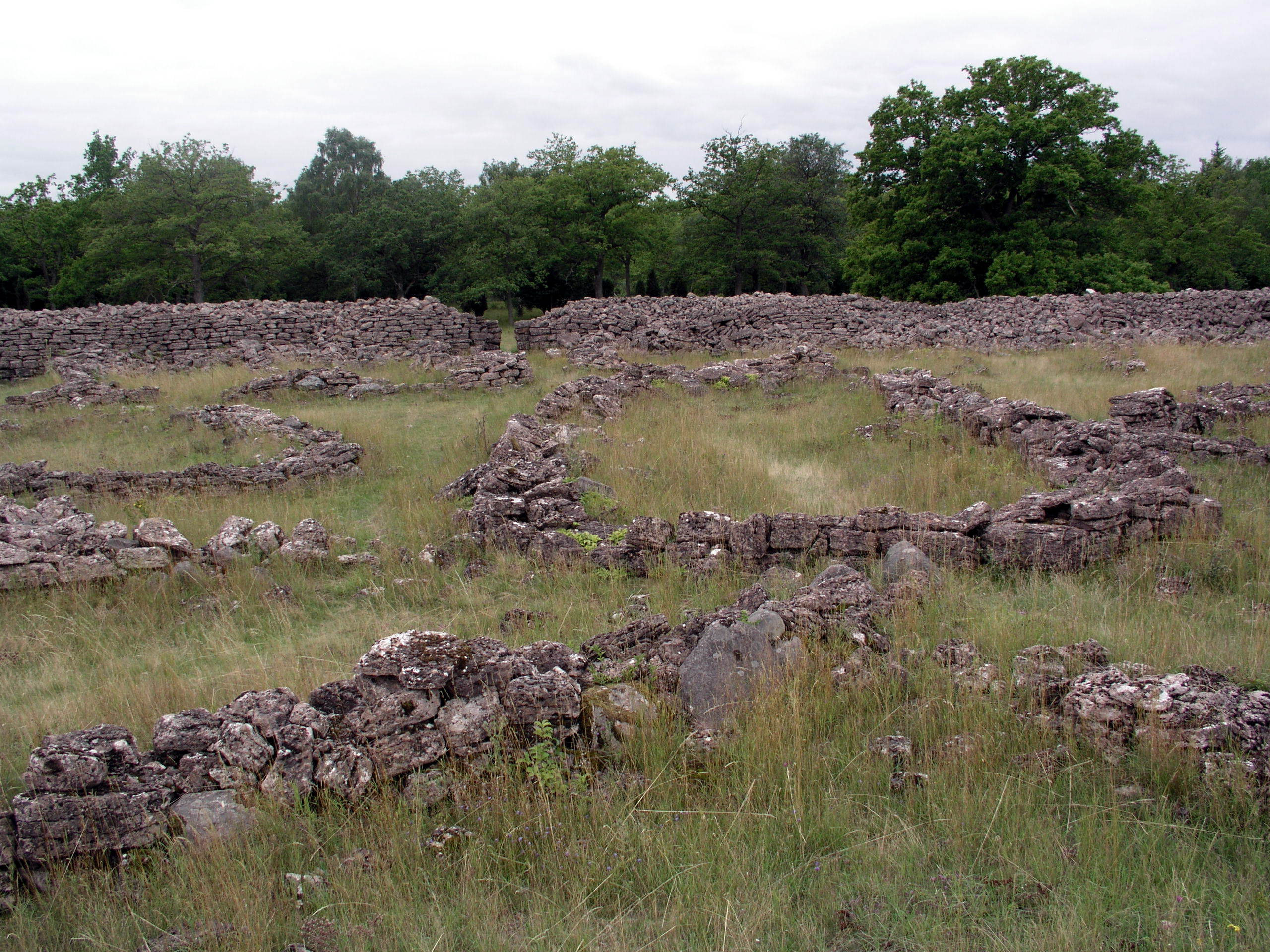 Ismantorps borg, prehistoric circular fort, Öland, Sweden